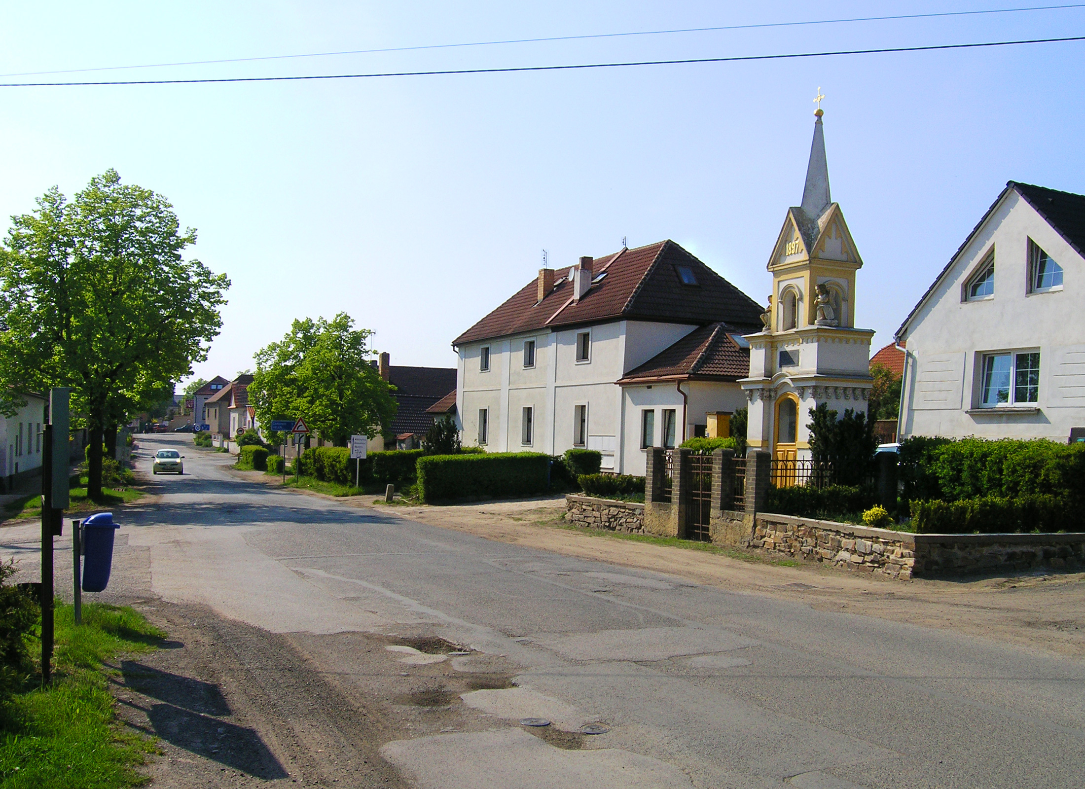 Chapel in Lower Common street in Přezletice village, Czech Republic